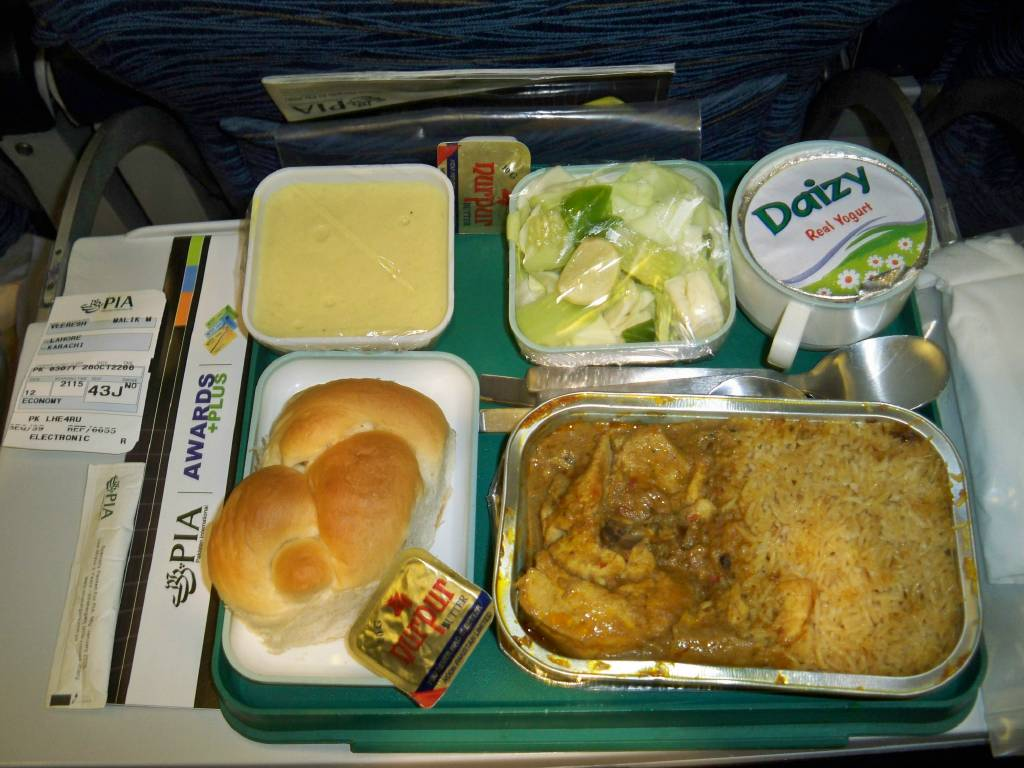 Snacks and dinner as served on PIA's flight Delhi - Lahore - Karachi. Very good on dinner and desserts.